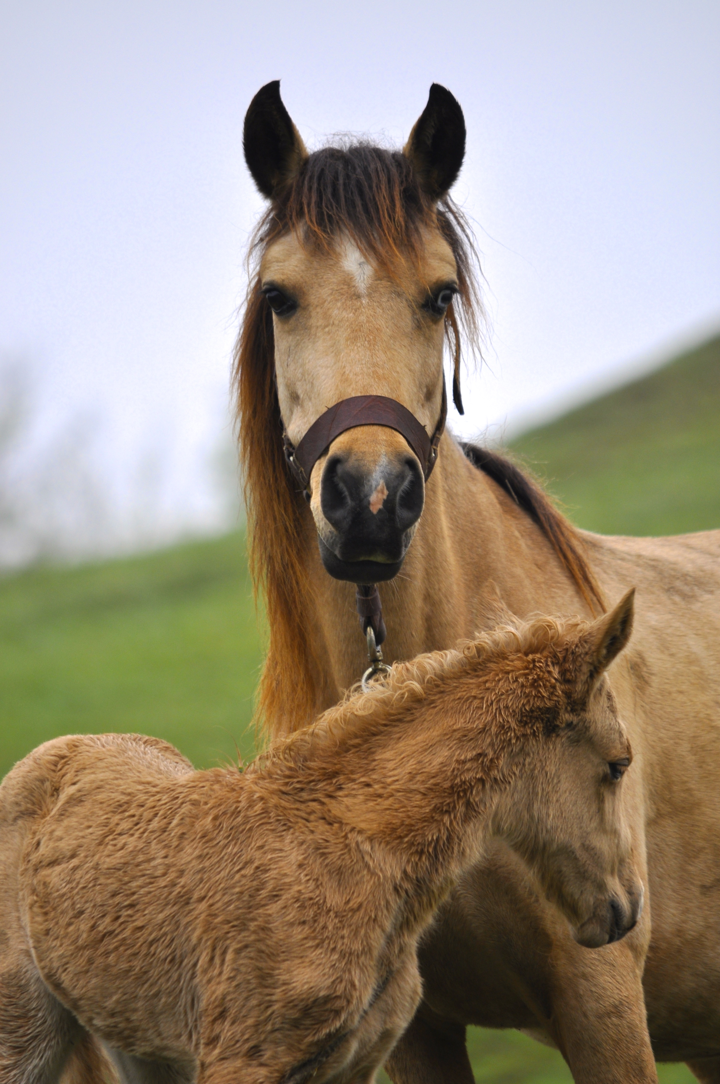 Horses at Göygöl National Park 3